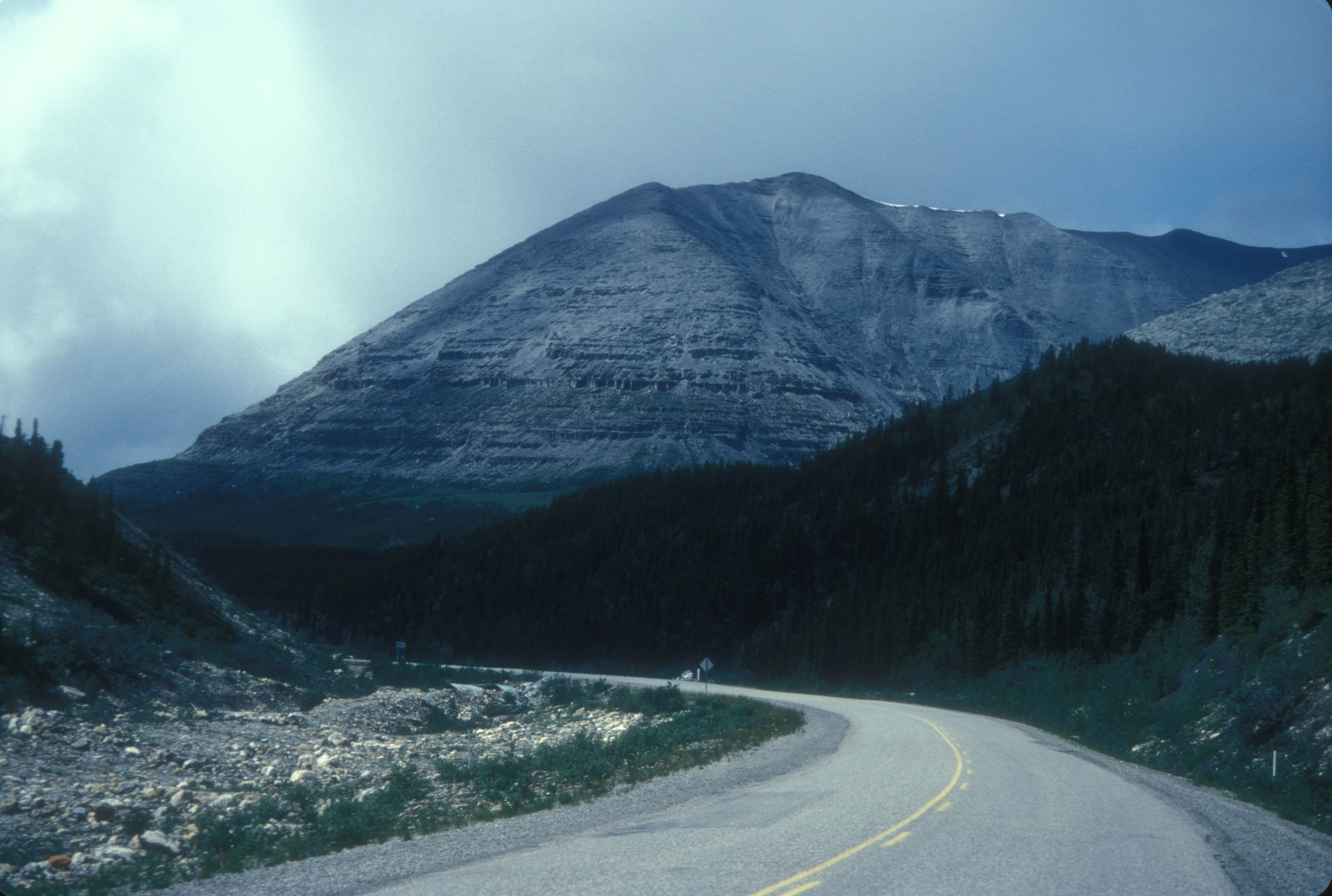 Stone Mountain Provincial Park and Summit Lake: the highest point on the Alaskan Highway, 4,250 feet (1,300 m)